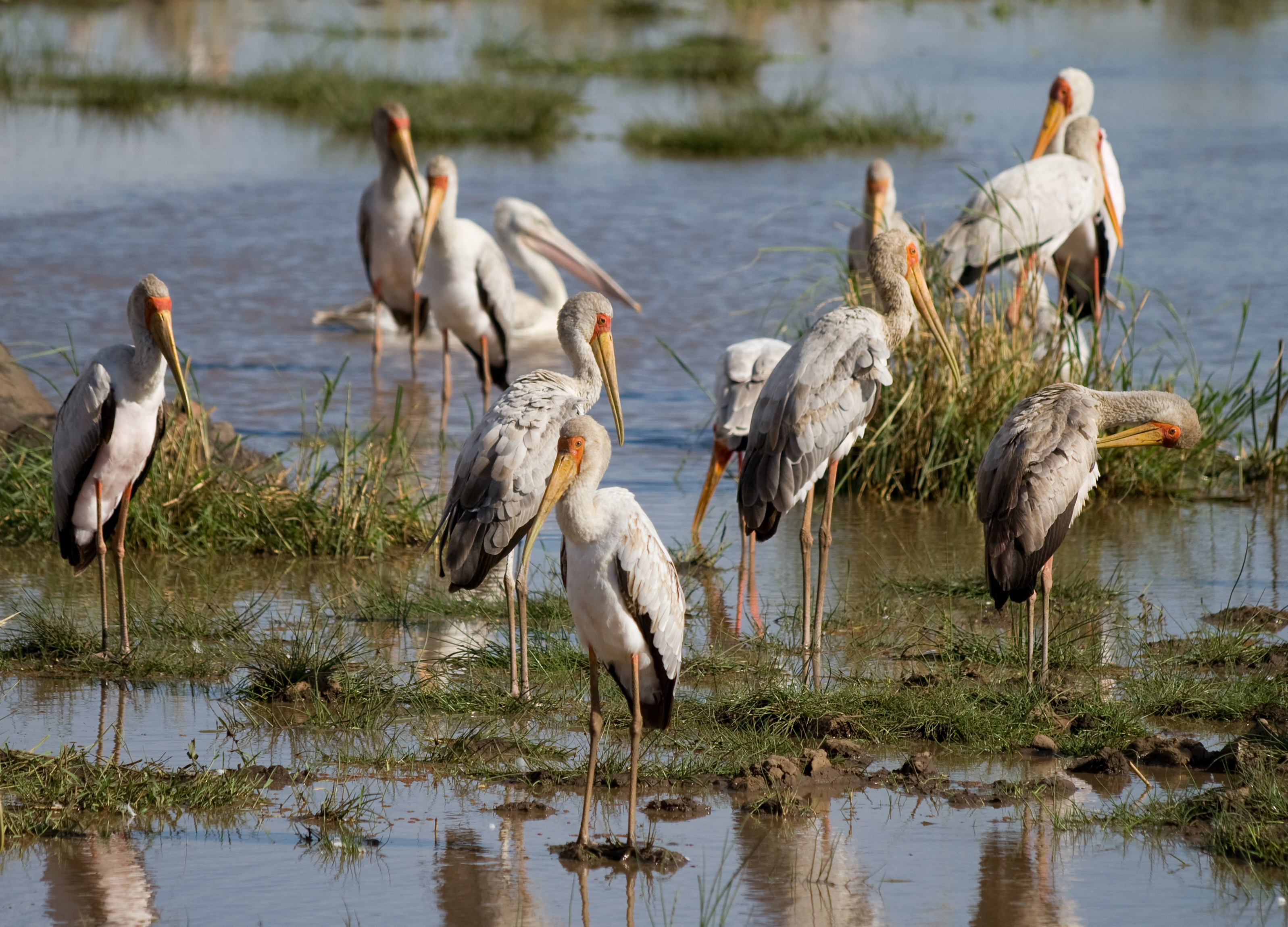 Yellow-billed Storks (Mycteria ibis) at Lake Manyara National Park, Tanzania